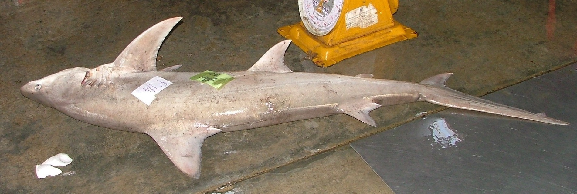 Snaggletooth shark (Hemipristis elongata) at Phuket Fishing Port, Thailand